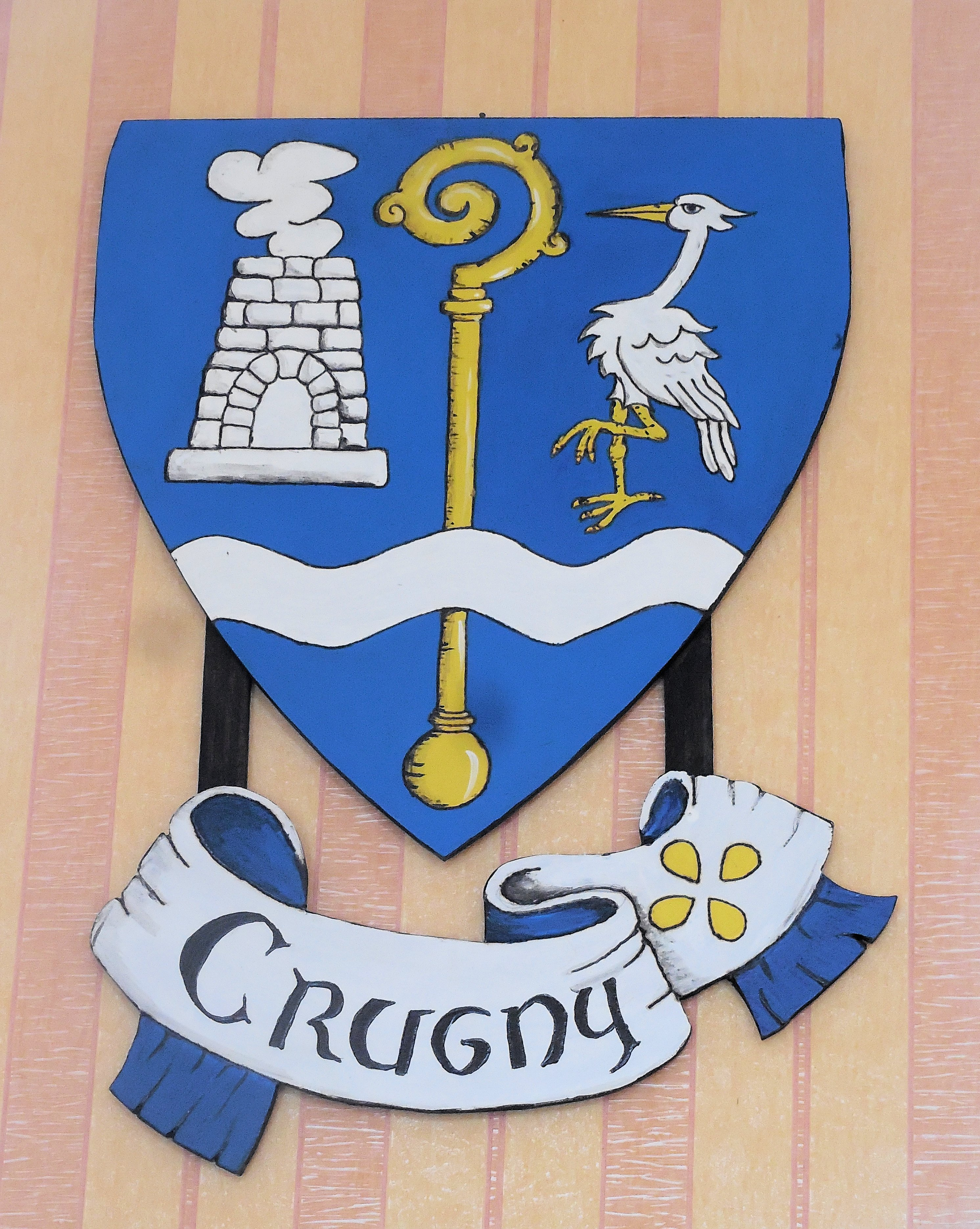 Blason-Crugny